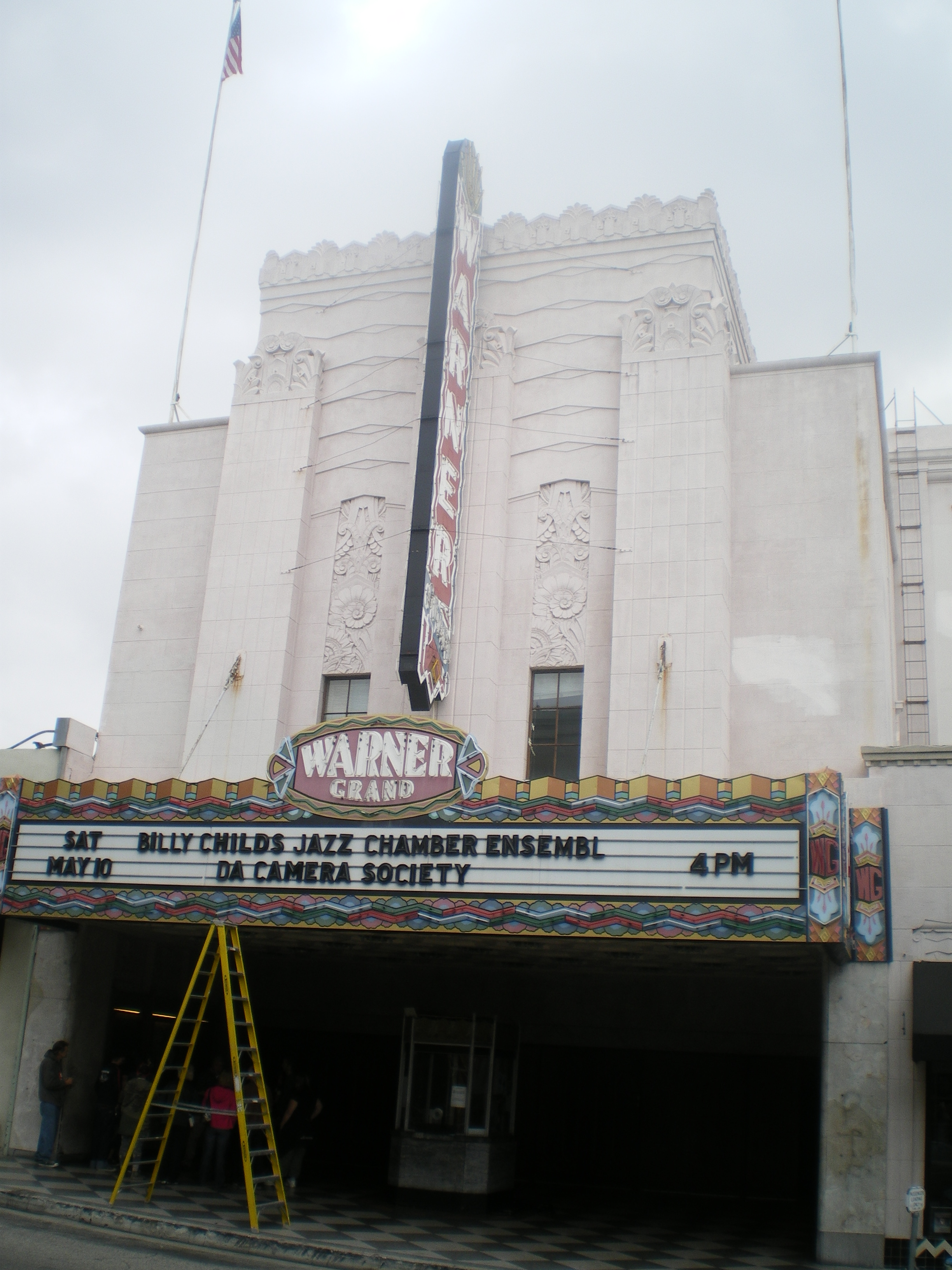 The Warner Grand Theatre — in San Pedro, Los Angeles, California. A Los Angeles Historic-Cultural Monument, and on the National Register of Historic Places.